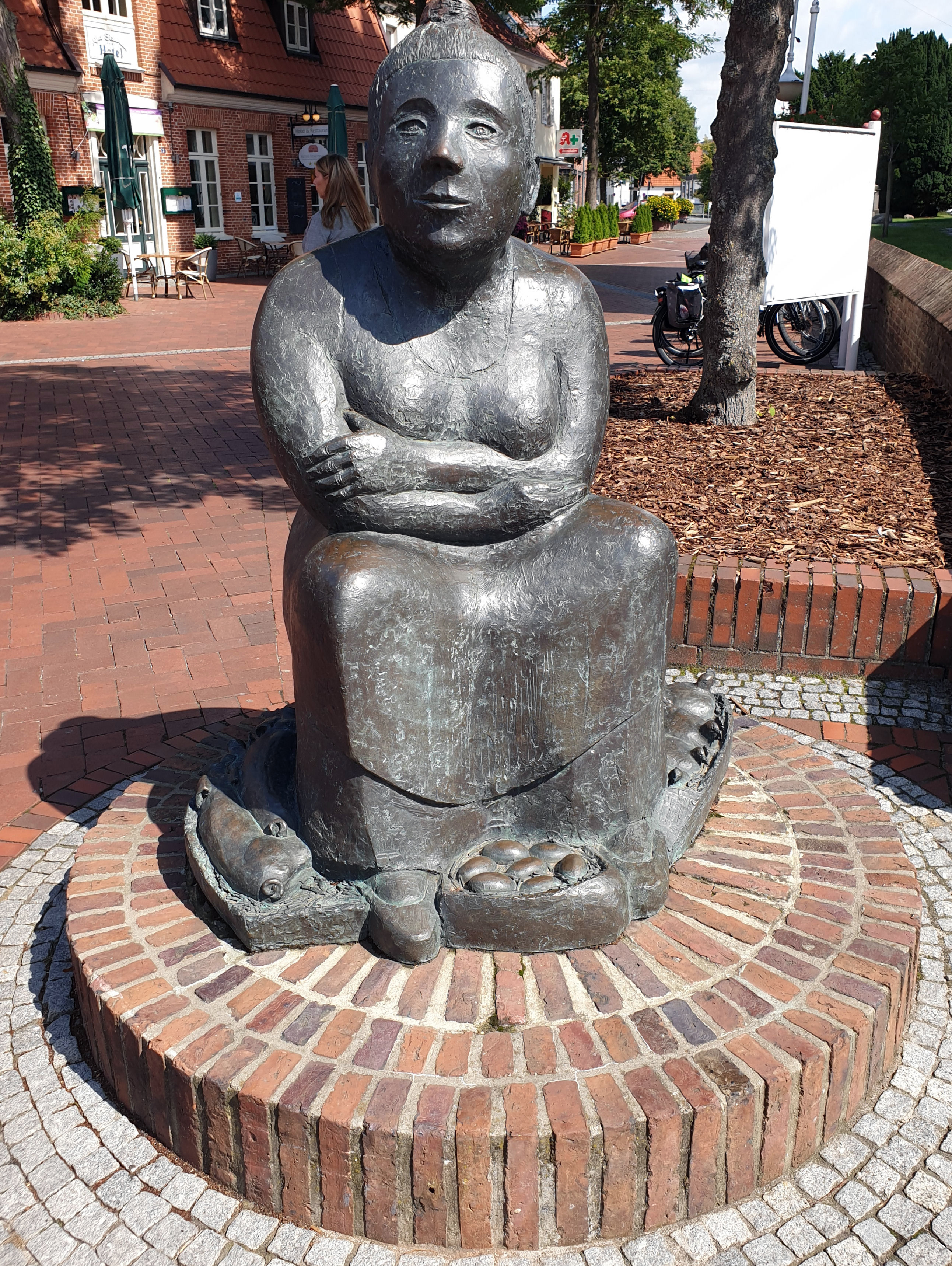 Sculpture, "'Marktfrau, Oma Apen" by Alice Peters-Ohsam, 2012, Am Markt, Westerstede, Germany